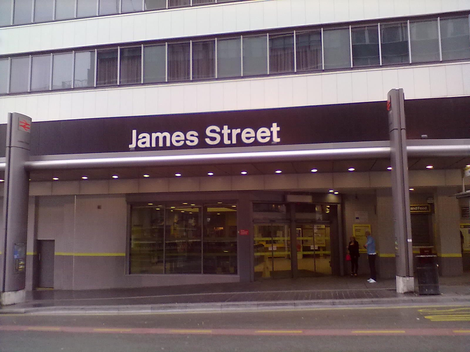 Exterior of James Street station in Liverpool